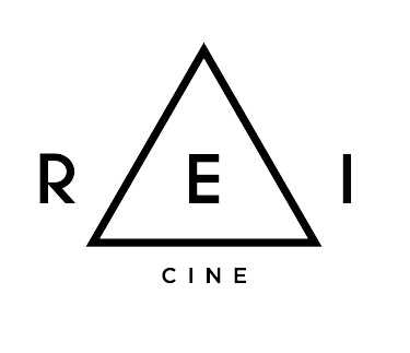 Rei Cine Logo